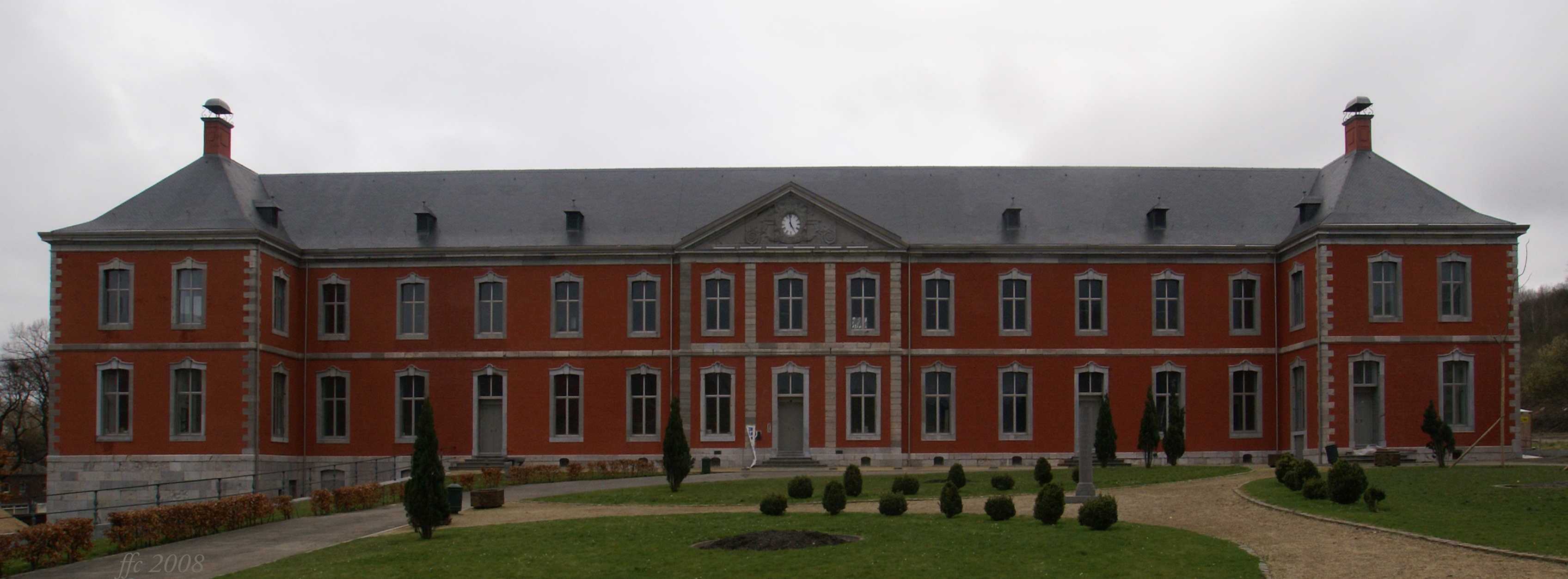 Val-Saint-Lambert (Belgium) Castle from abbot - lateral view (south-west)